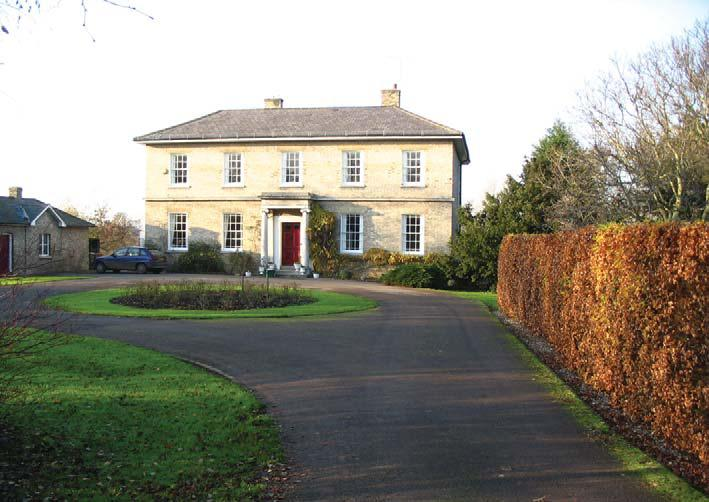 A picture of Sturgeons House, taken in 2005.